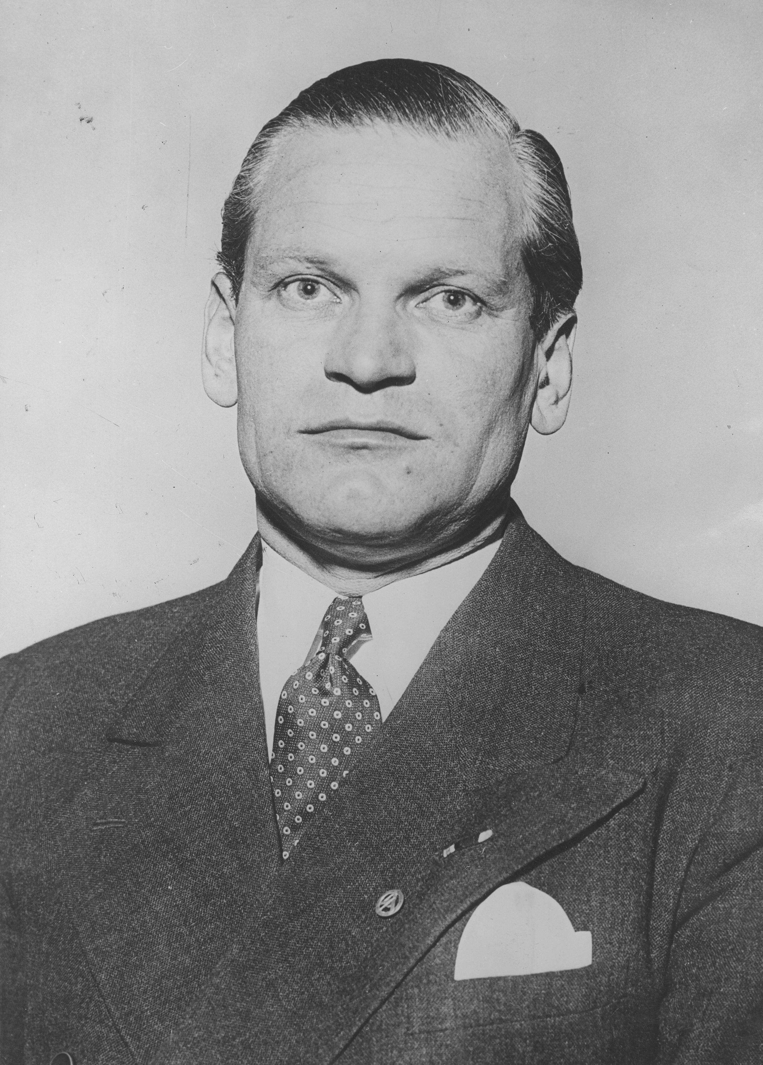 Karl Ritter von Halt, head of German athletics. Portrait photography.